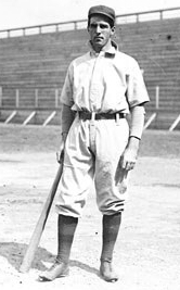 New York Highlanders player Slow Joe Doyle at South Side Park in Chicago, 1909. Cropped from original LOC image.